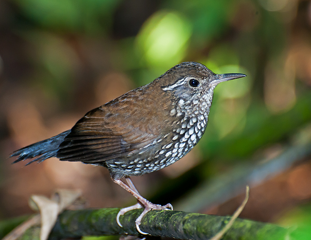 A Sharp-tailed Streamcreeper in Parque Estadual da Serra da Cantareira, São Paulo, Brazil.